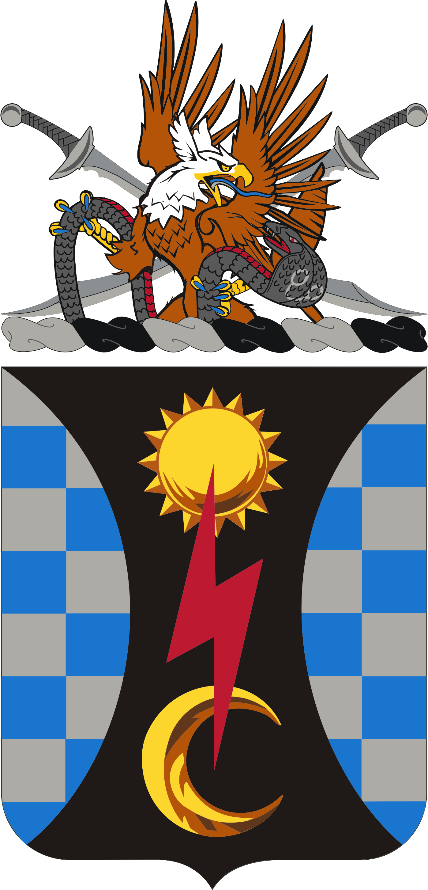 109th Military Intelligence Battalion Coat of Arms approved on 02 September 1981, with crest approved on 19 July 2011.